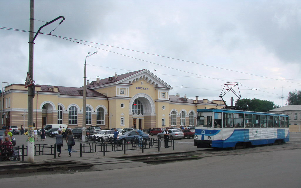 Railway station and tram in Konotop